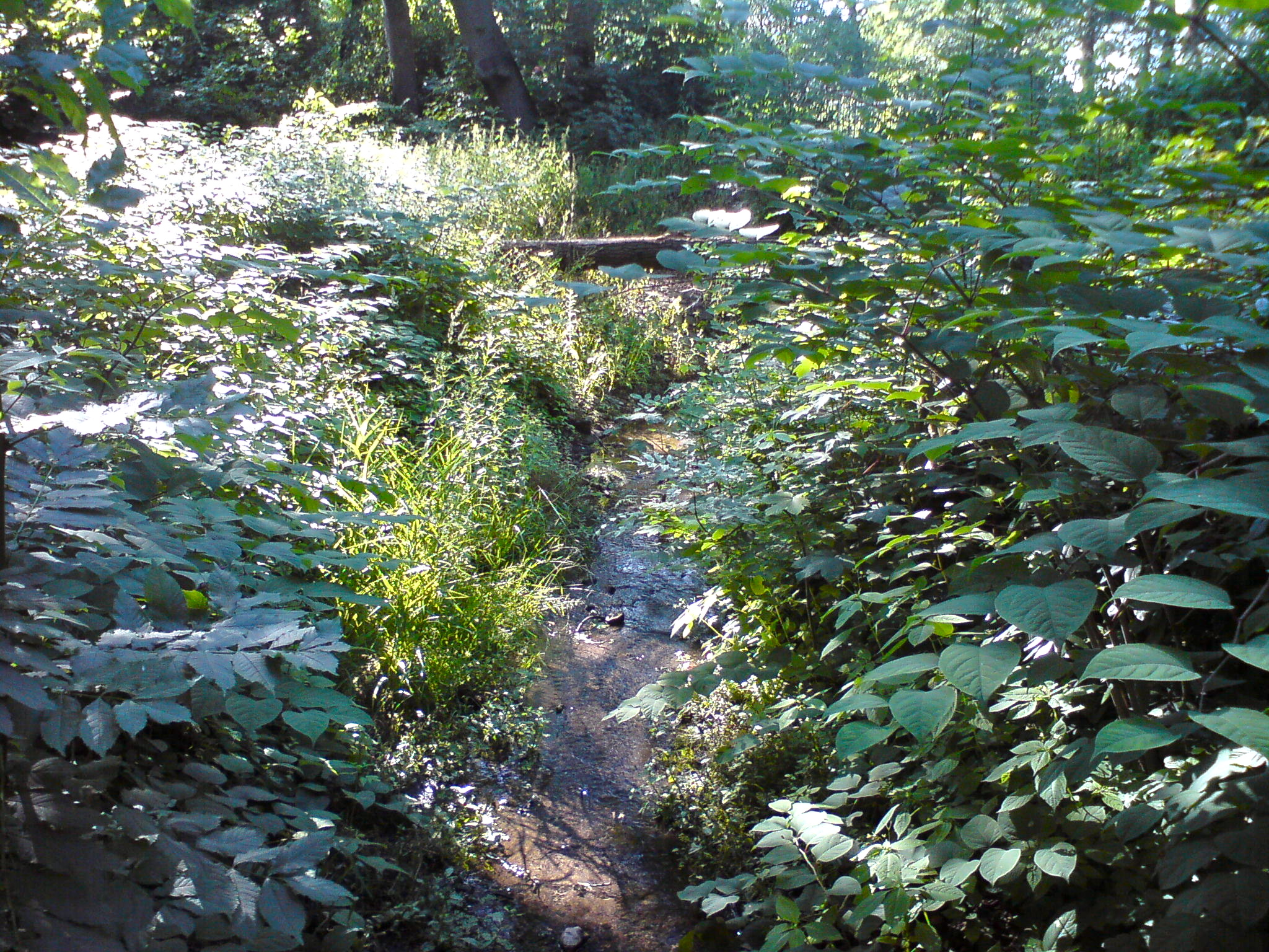 Hamburg (Germany): The river Flottbek